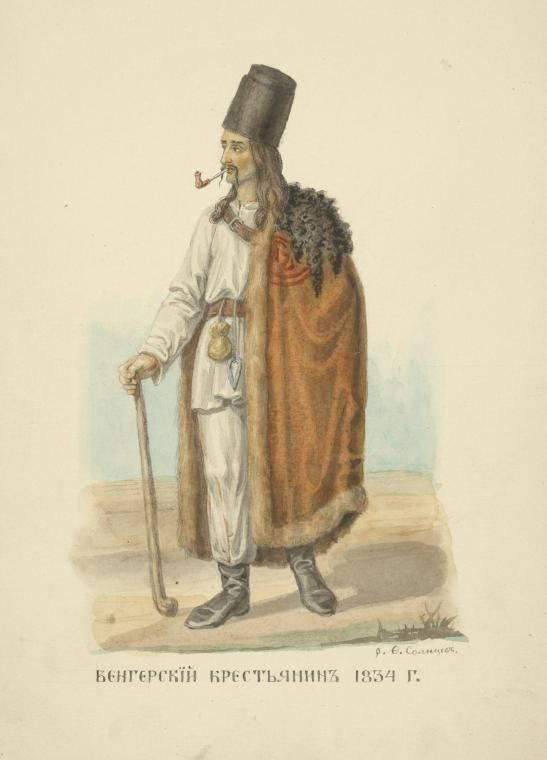 A Hungarian peasant in 1834